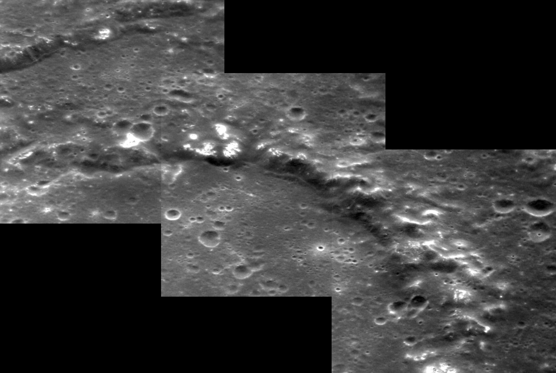 Interior of Mark Twain crater on Mercury. Mosaic of MESSENGER Narrow Angle Camera images. Approximate north is to right. Source images are: EN1072203681M EN1072203696M EN1072203711M Statistics for the center image are: Emission Angle: 48.4 Incidence Angle: 41,7 Latitude: -10.6 Longitude: 221.2 Phase Angle: 90.0